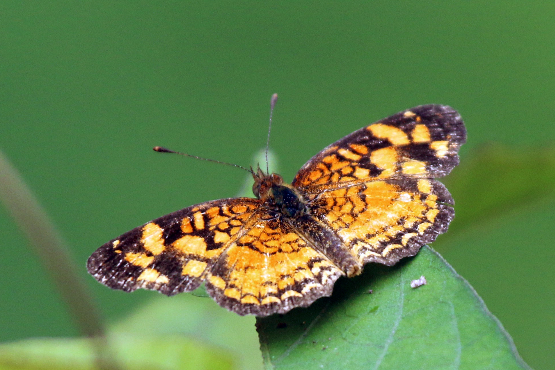 Cuban checkerspot butterfly (Athanassa frisia frisia) in Jamaica